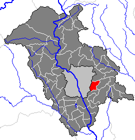 This map shows the area of the Gemeinde (municipality) Hart bei Graz in the Bezirk (district) Graz-Umgebung, Styria, Austria.